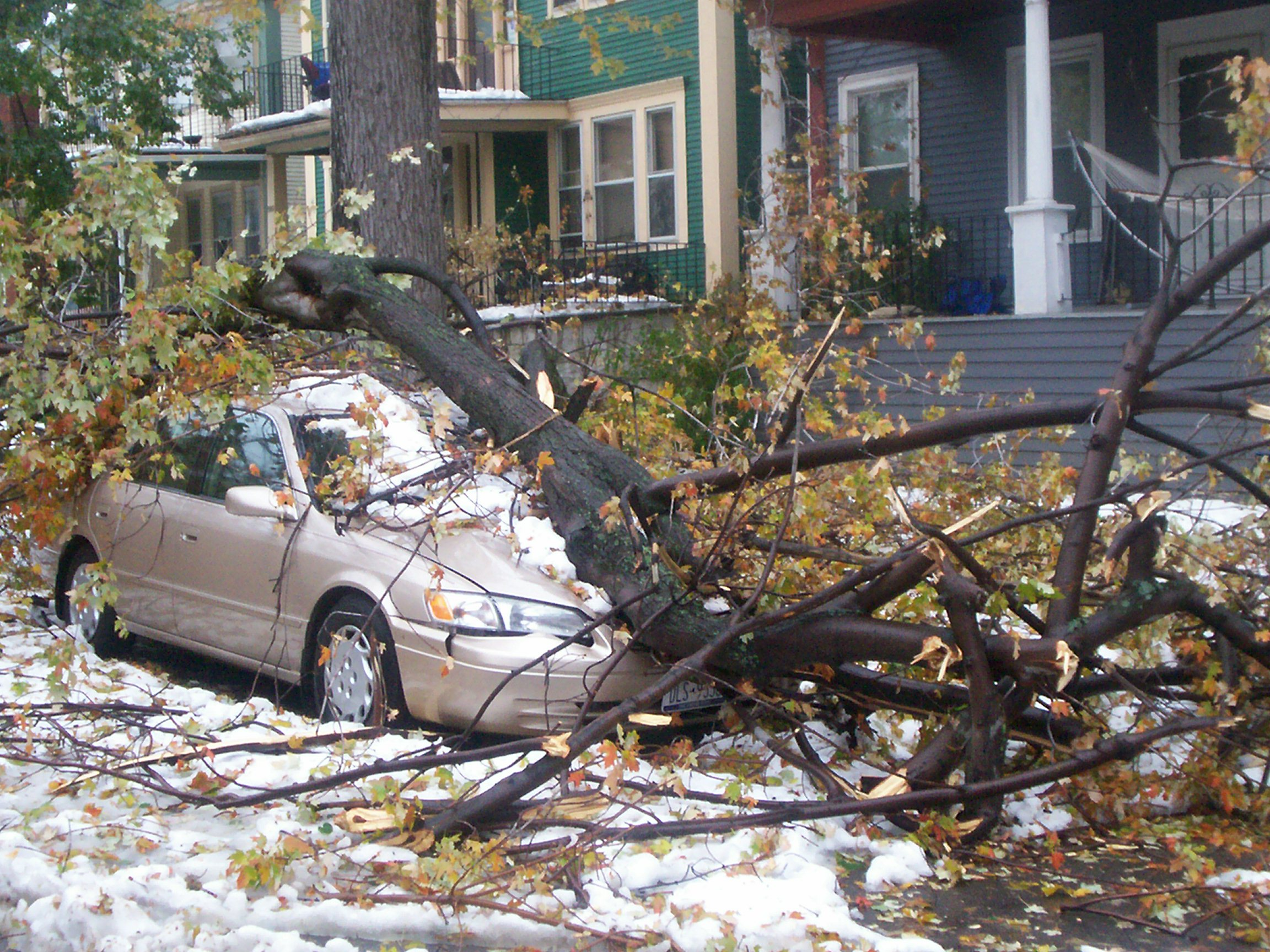 Image: A car is crushed by a tree limb on Potomac off ELmwood Avenue in Buffalo, New York during the "Friday the 13" snow storm. October 14, 2006. Source: I am the author of this image.